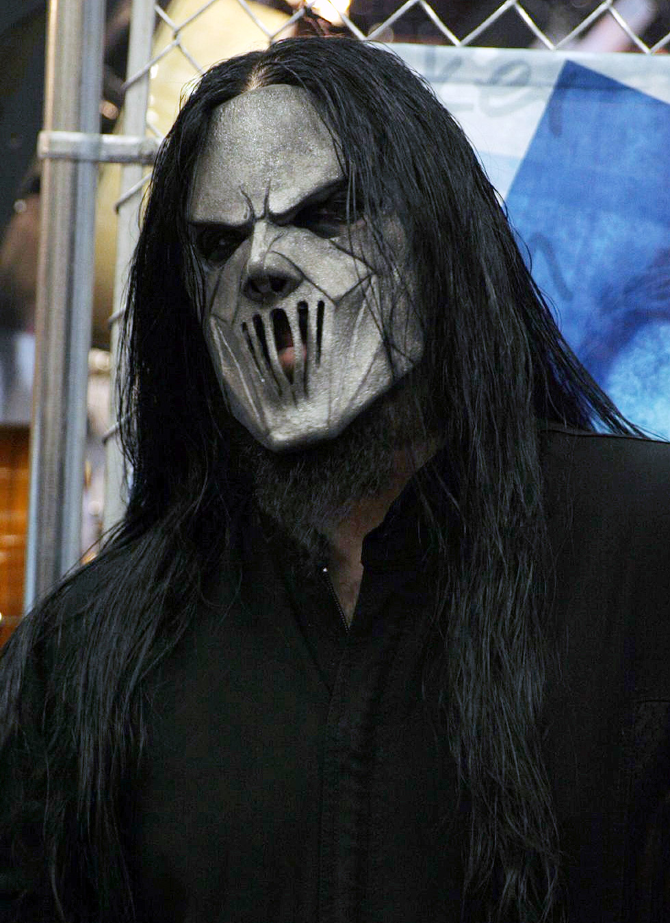 Mick Thomson of Slipknot